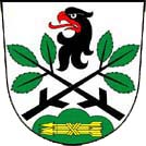 Coat of amrs of Břitství.